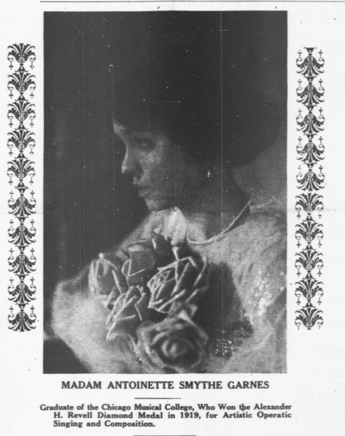 Antoinette Garnes, opera singer